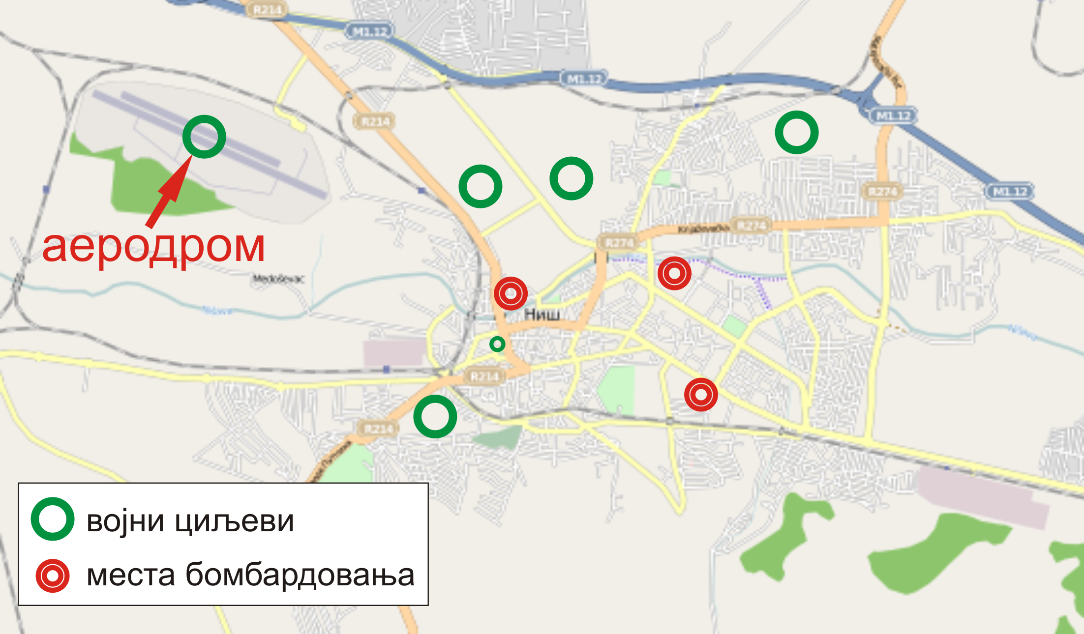 Bombardment of Nis on 7. May 1999.